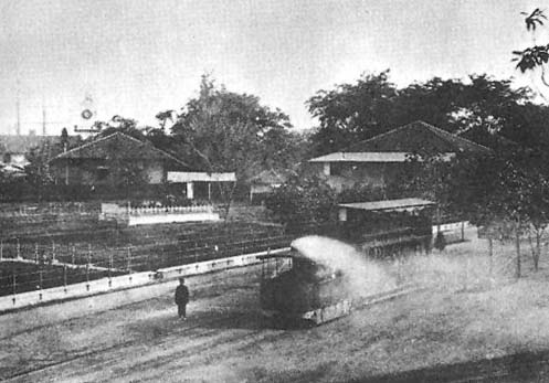 View of a Singapore steam tram engine and trailer.